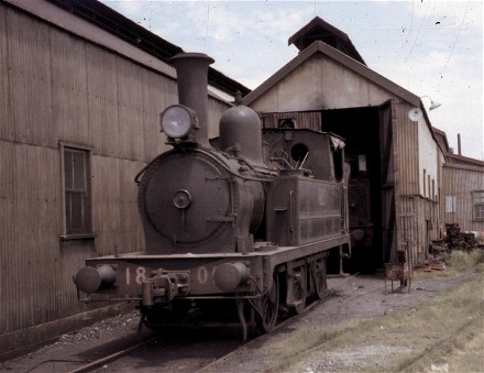 Locomotive 1805 at the reids Hill depot, Port Kembla